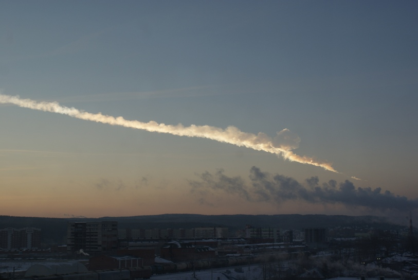 Yekaterinburg view of 2013 Russian meteor event (Selkorovskaya str.)